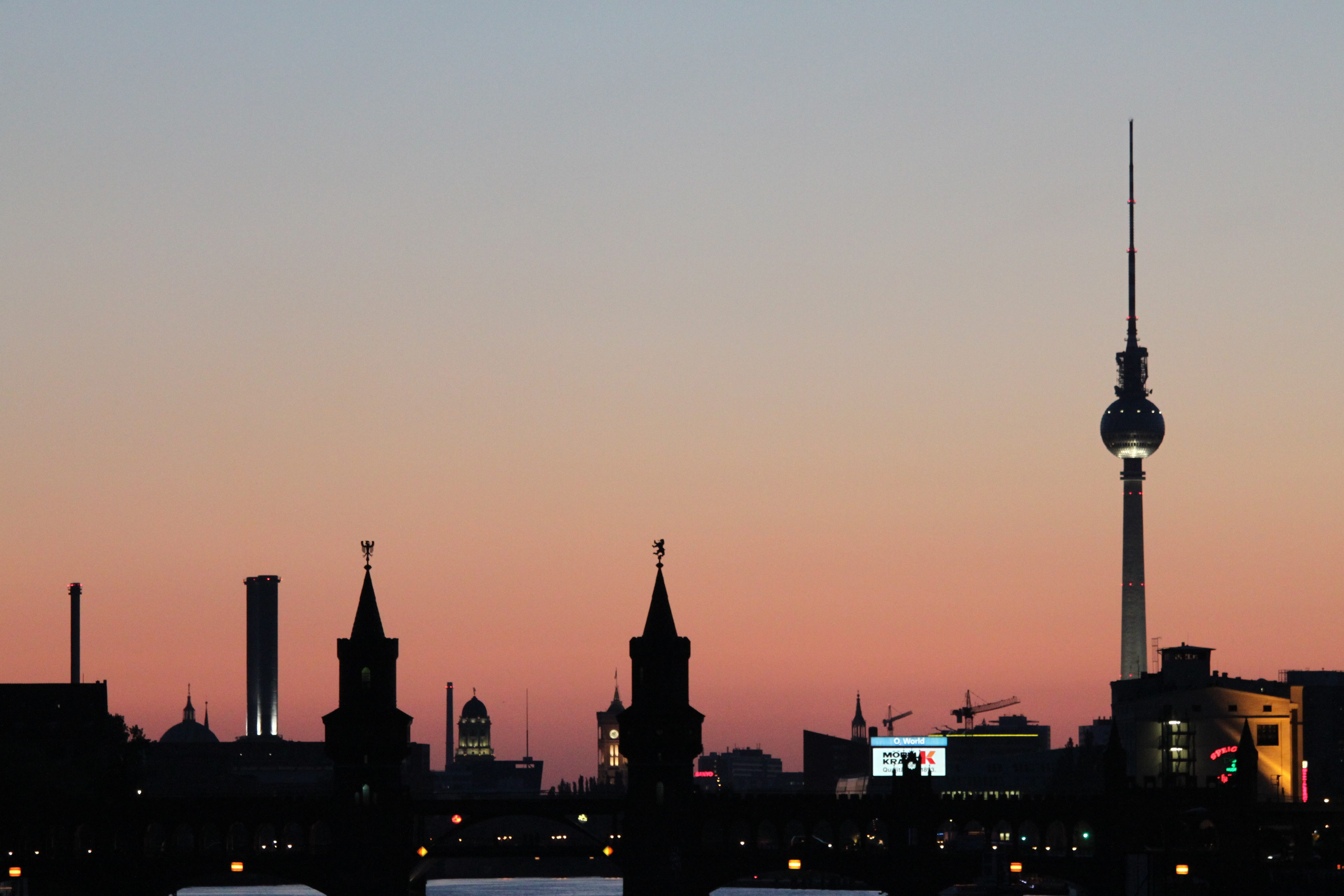 Berlin Panorama - River Spree 2010